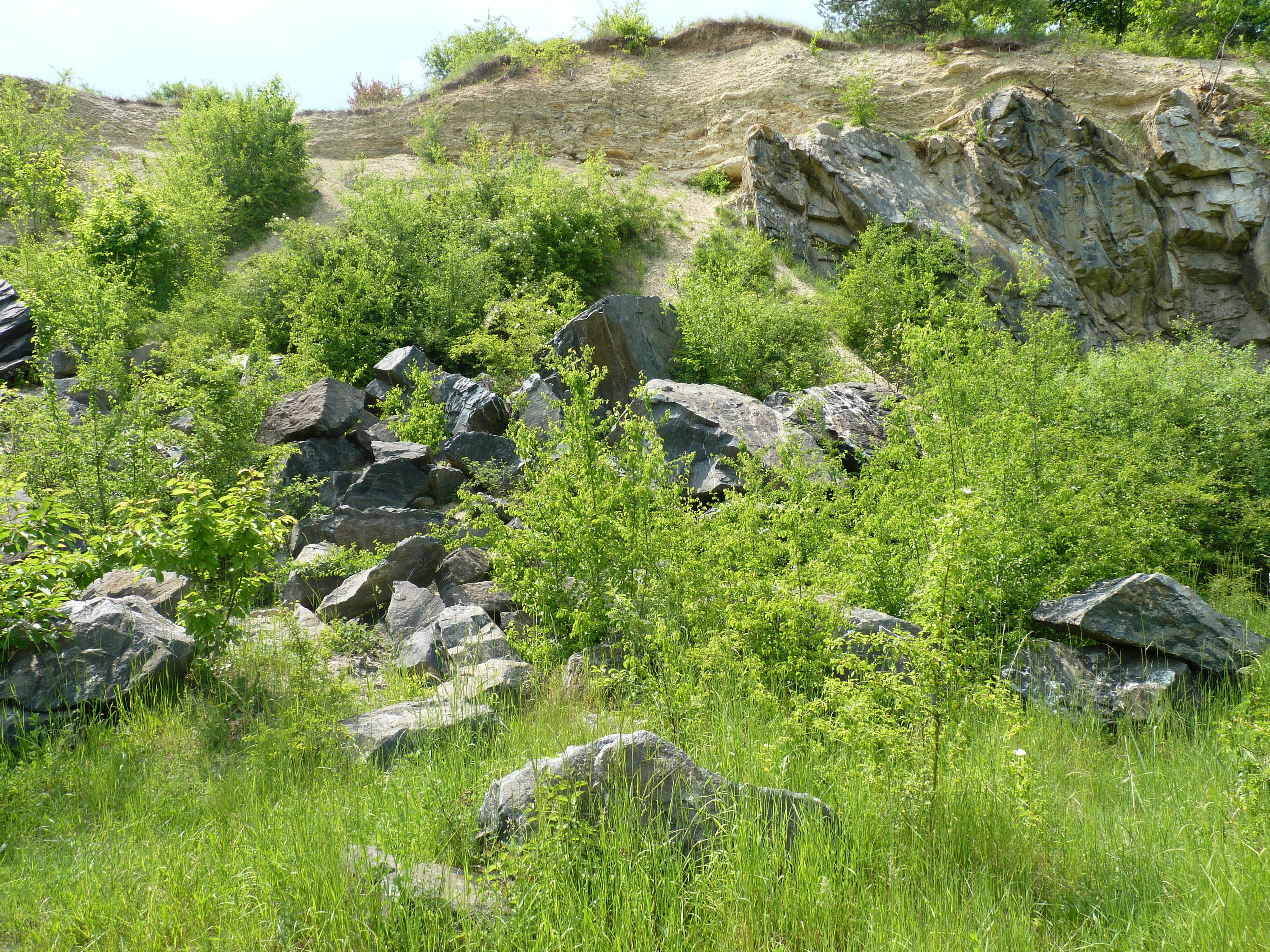 Natural monument Lom u Nové Vsi